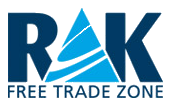 RAK FTZ Logo